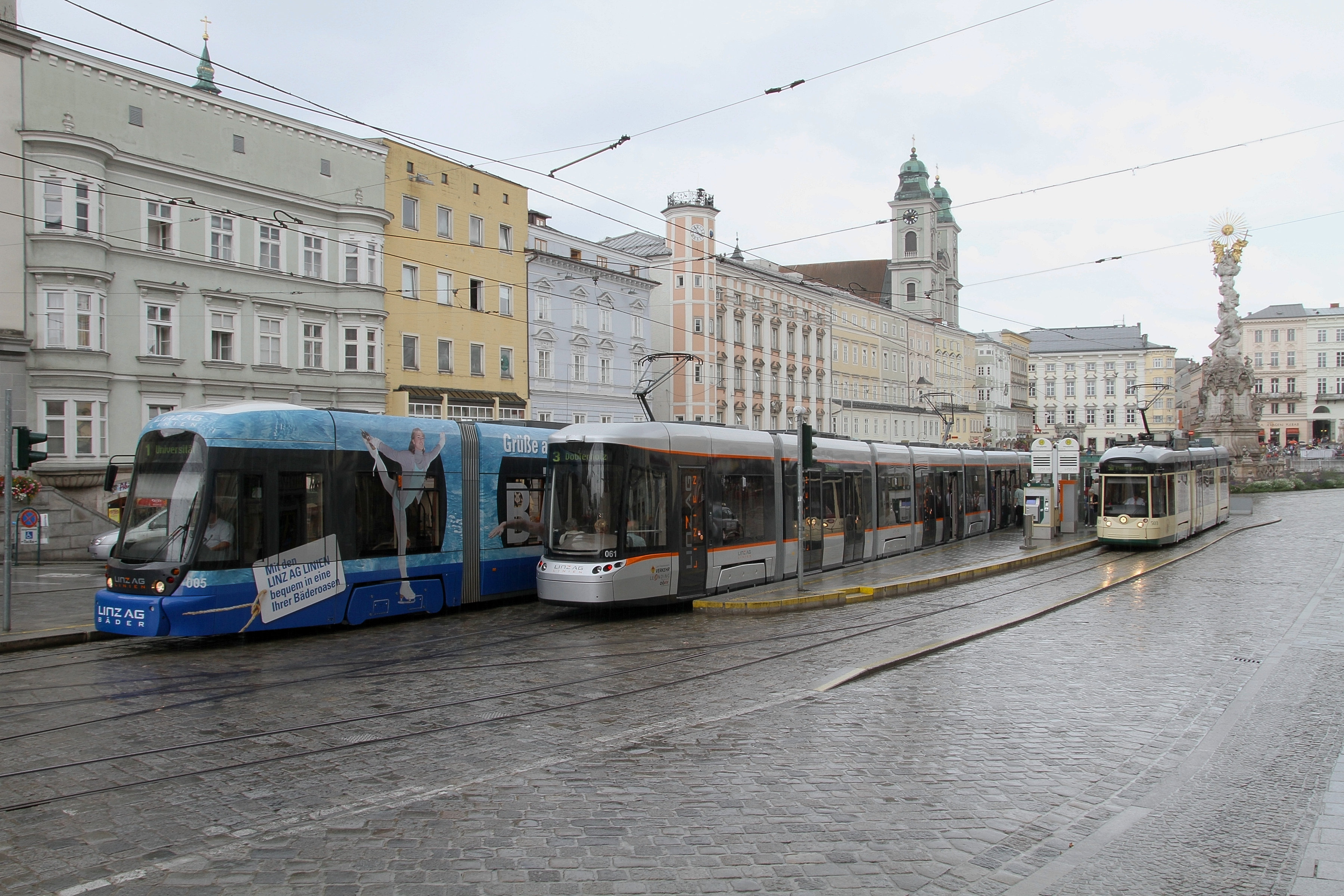 Two generations of Bomardier Cityrunners on the main square in Linz. To the right one of the new Pöstlingbergbahn trains can be seen.